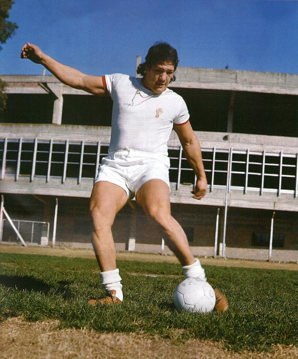 Ringo Bonavena (wearing a Huracán jersey) kicking a football.